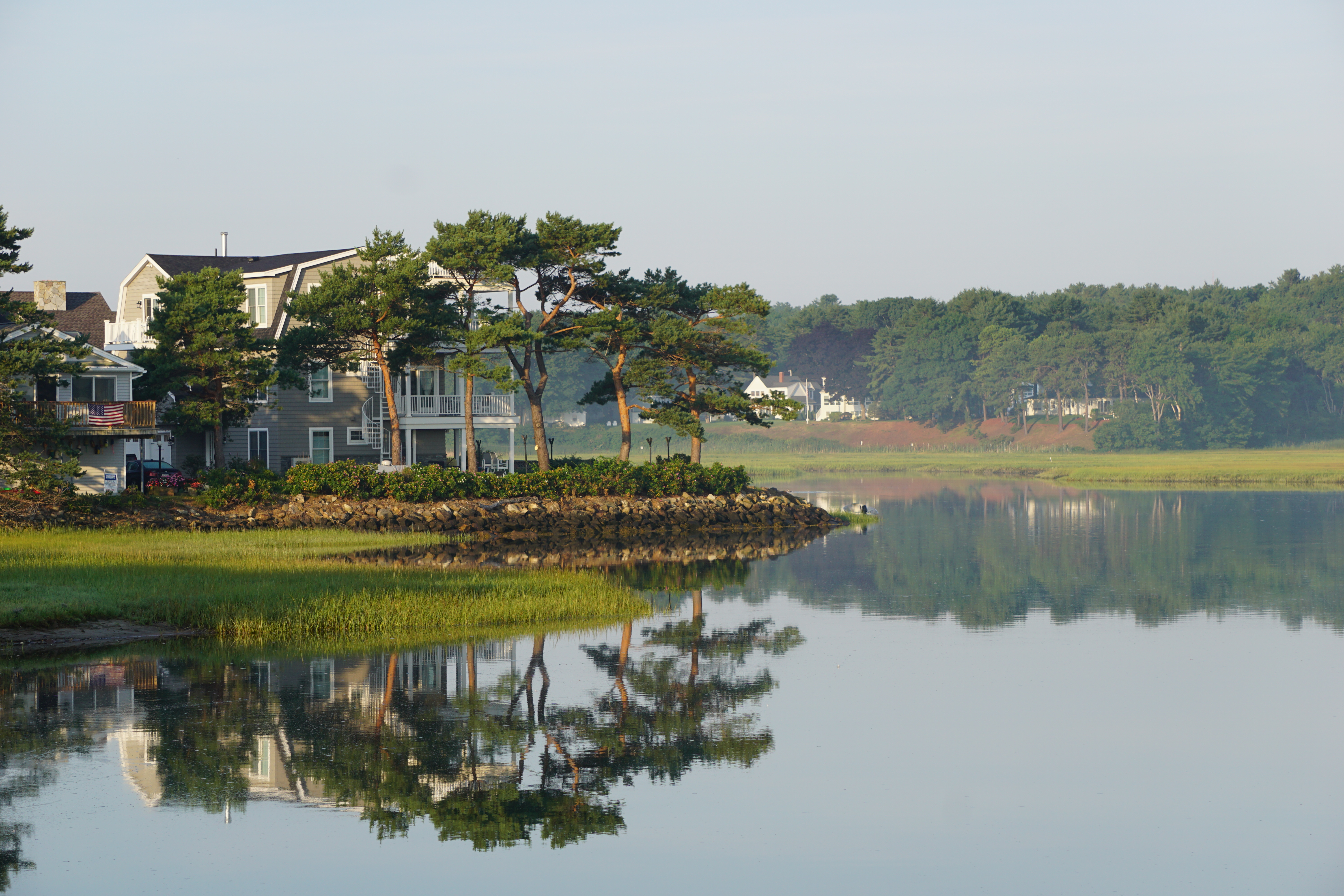 Ogunquit River in Wells, Maine in 2016